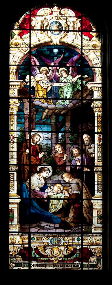 Stained glass window, Cathedral of the Immaculate Conception, Mobile, Alabama